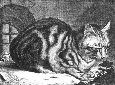 The Large Cat